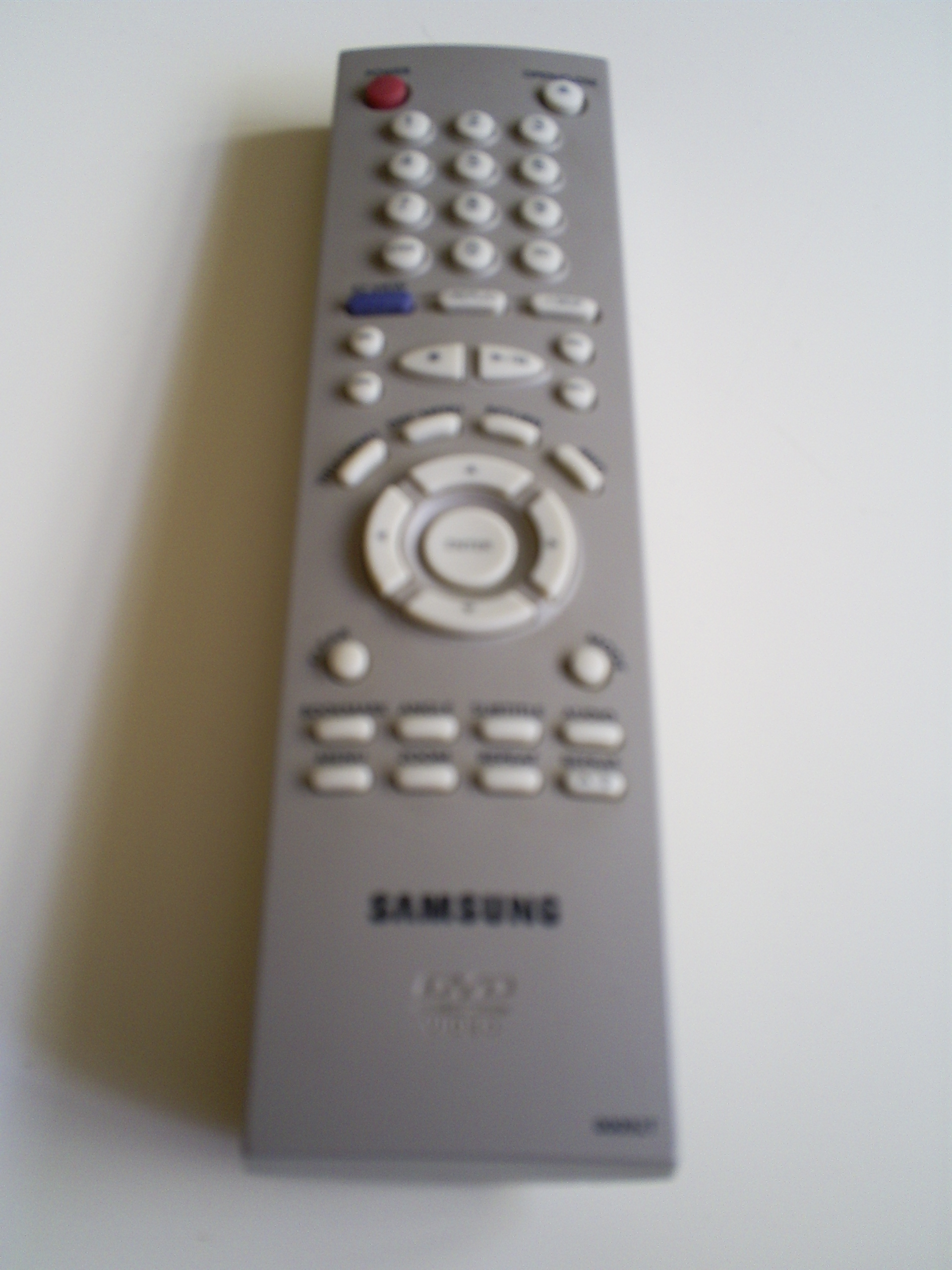 A grey remote control for a Samsung DVD player.